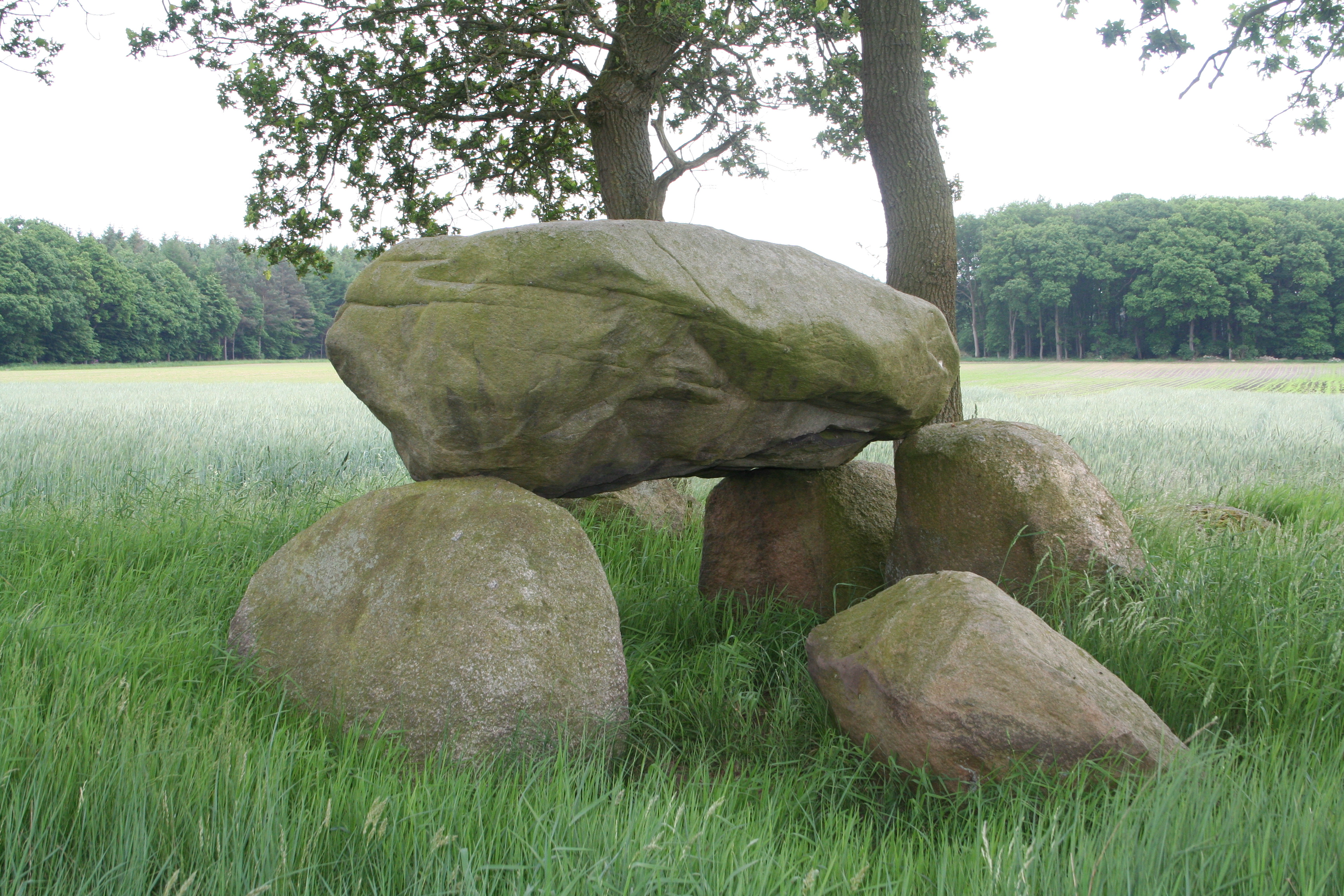 Megalithic tomb Großenhain